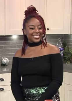 This photograph depicts the owner and manager of the Slutty Vegan restaurant chain in Atlanta, Georgia.